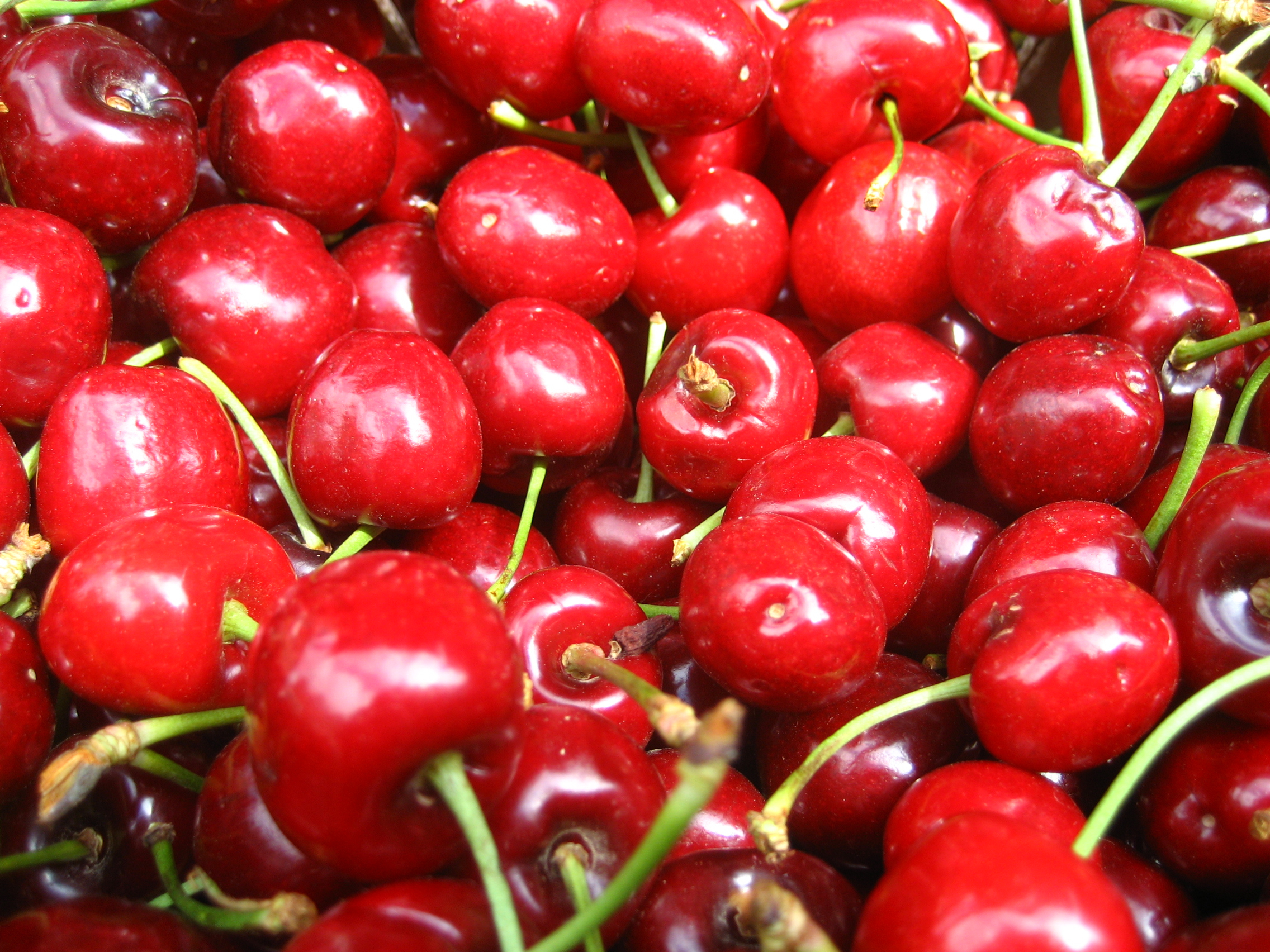 Cherries